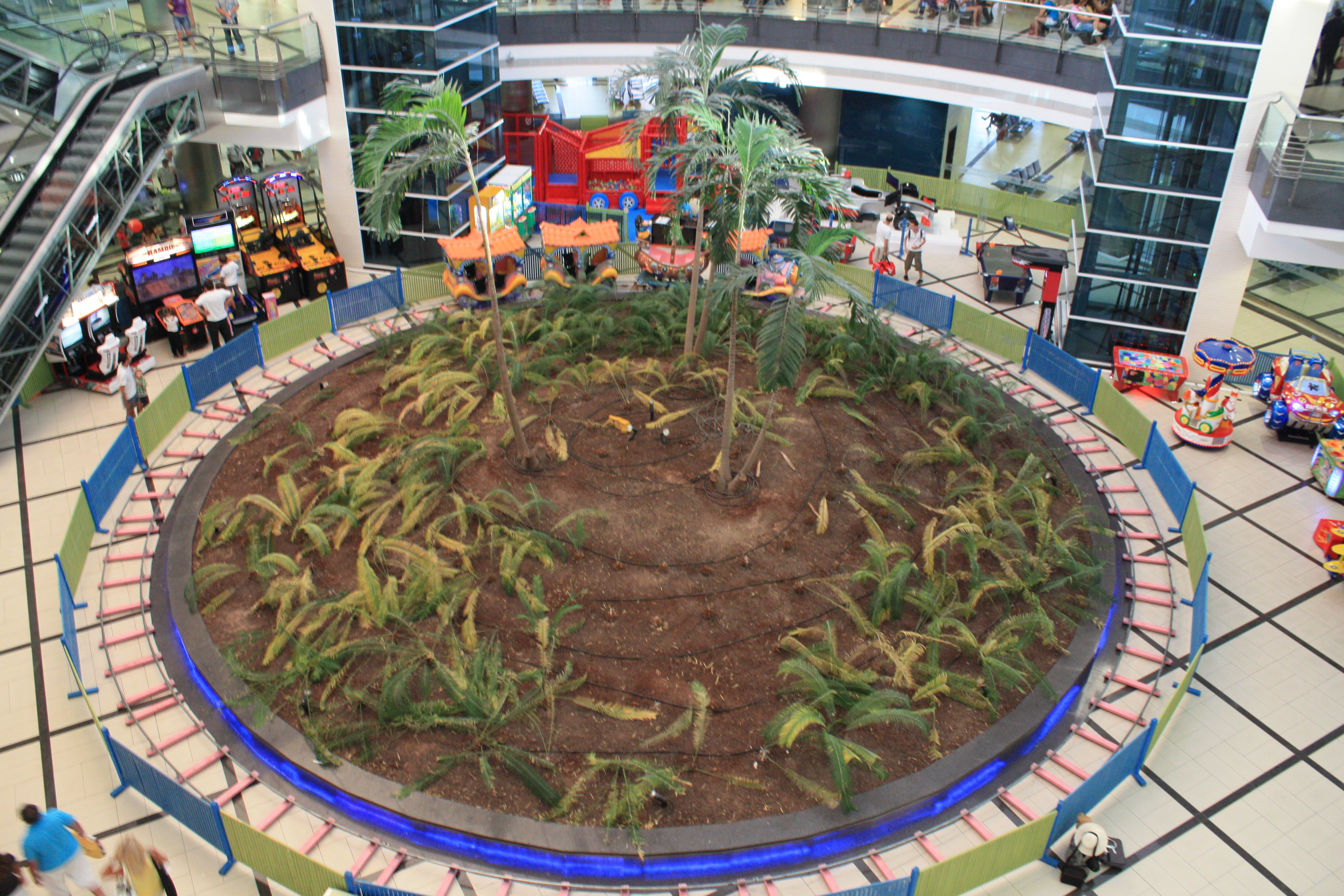 View of Antalya Airport from inside.